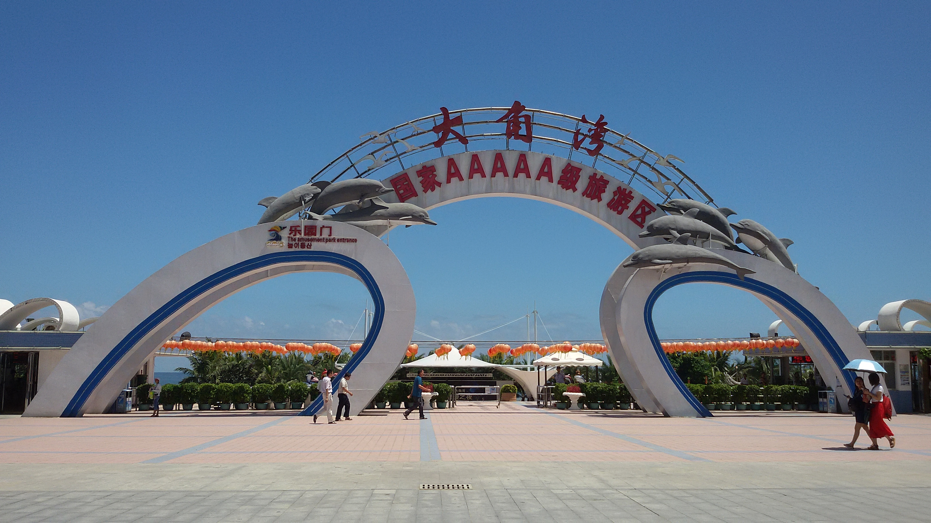 The amusement park entrance, Dajiao Bay.